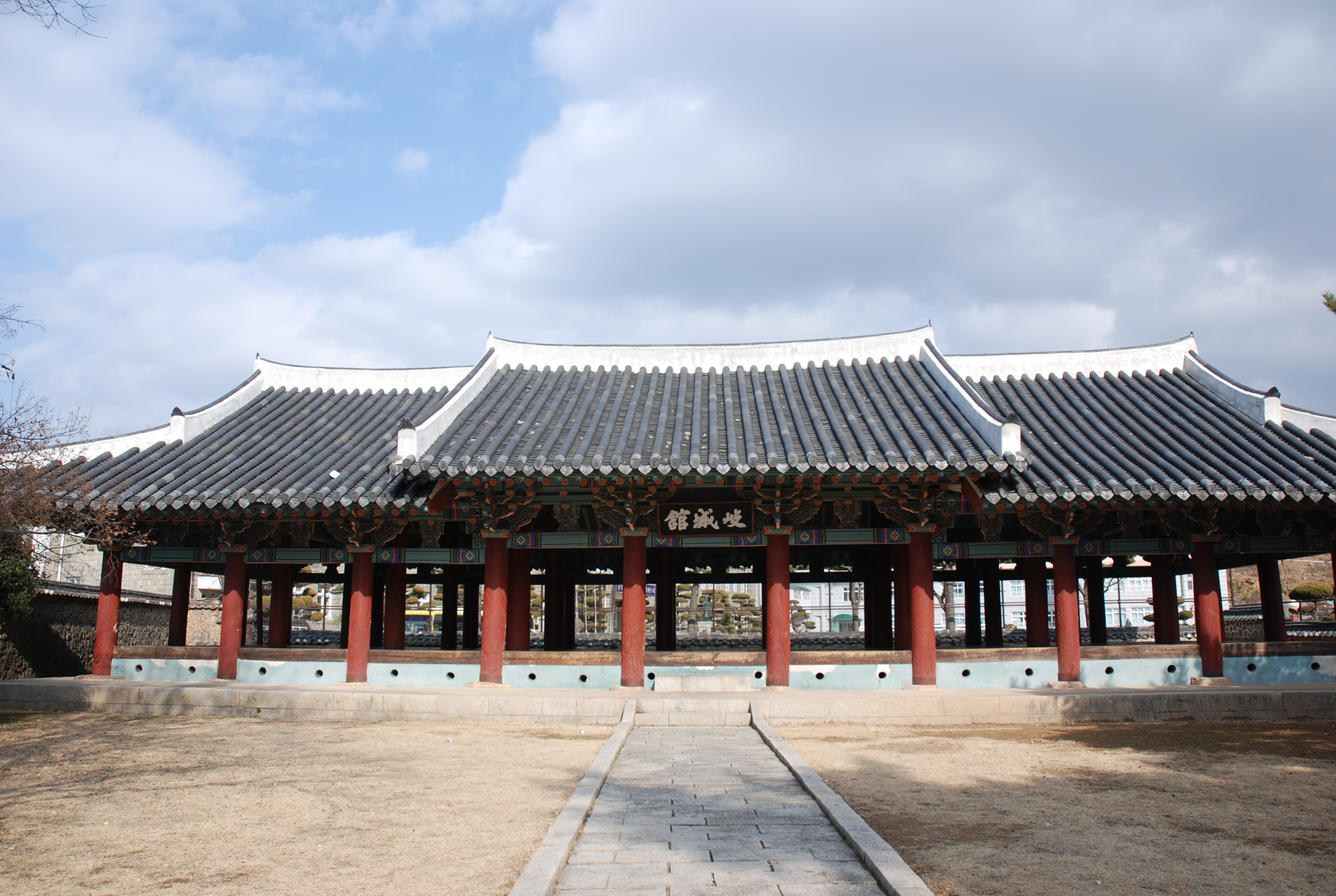 Old Geoje town hall, Josun Dynasty